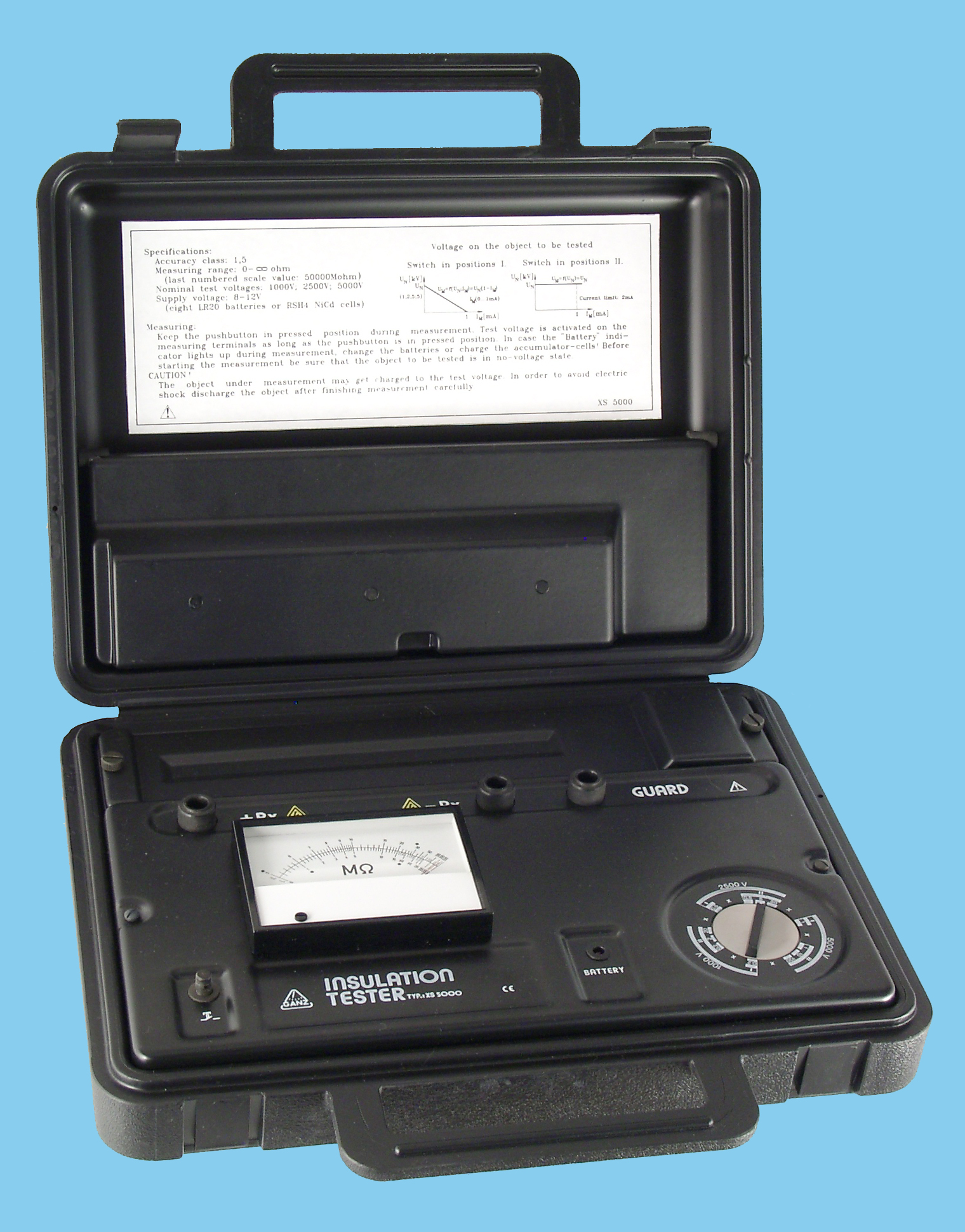 High-voltage insulation tester